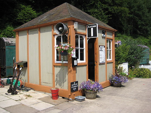 Restored station master's office, Norchard Station Norchard is the site of a former colliery and power station (West Gloucestershire Power Station) in the Forest of Dean. The Dean Forest Railway, based at Norchard, runs between Lydney and Parkend in Gloucestershire. Now a heritage railway, the route was once part of the Severn and Wye Railway. The station master's office is located on the Low Level Platform.